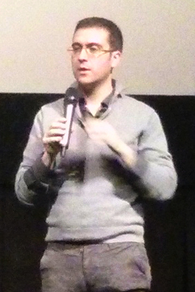 Director Tomm Moore presenting Song of the Sea